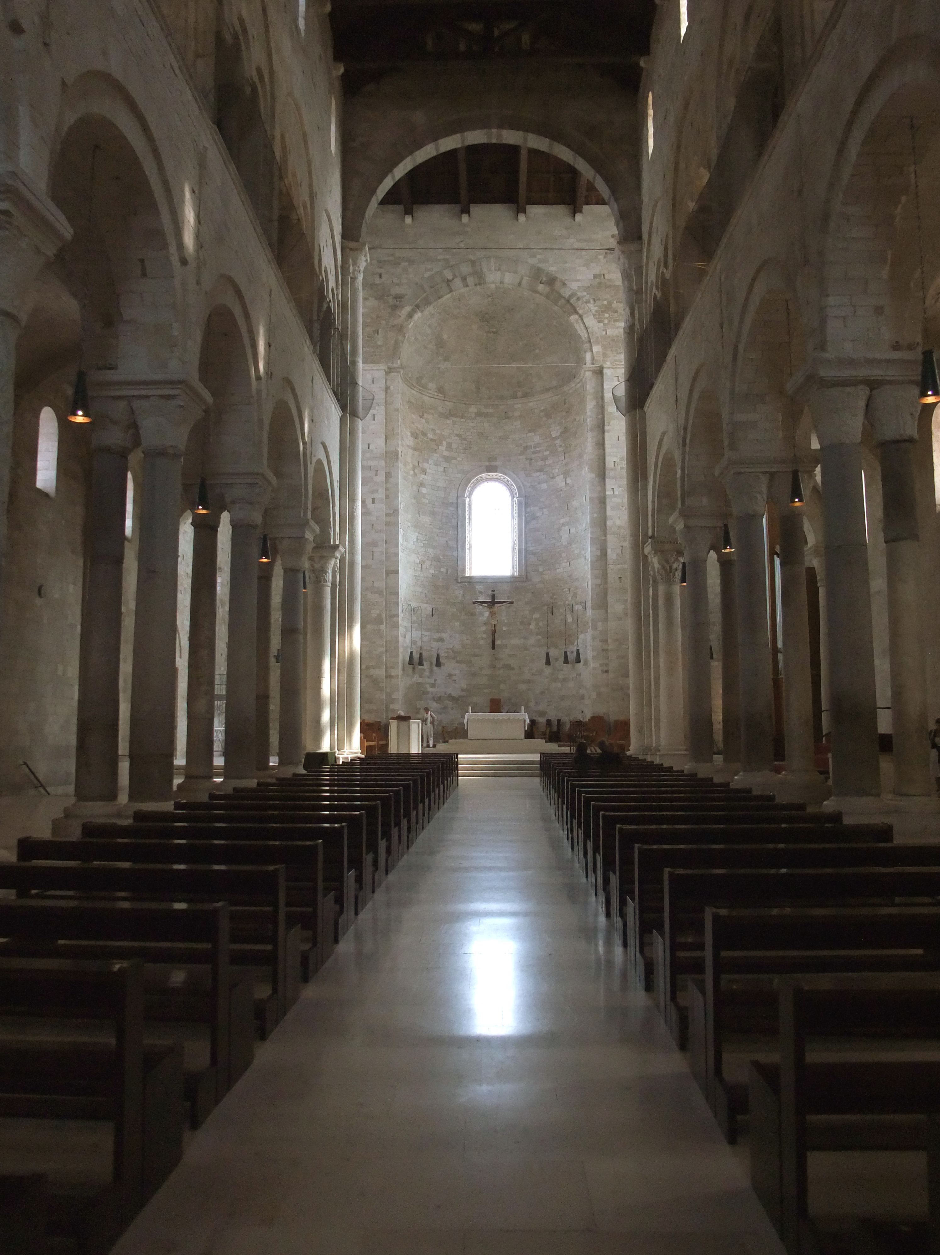 Interior of Cathedral San Nicola Pellgrino of Trani in Apulia, southern Italy